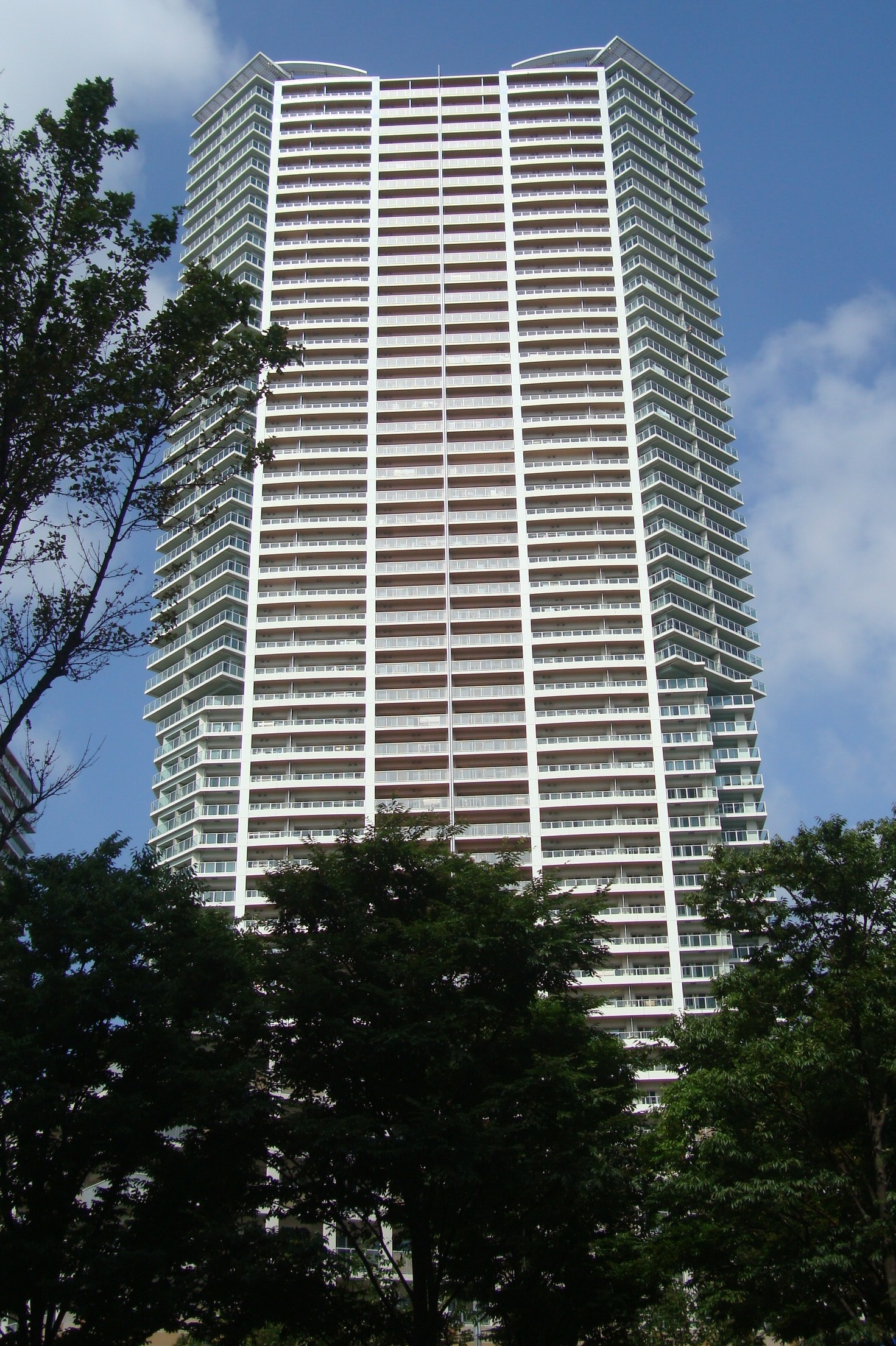 Tower A of Park City Toyosu residential complex, Toyosu, Koto city, Tokyo Unknown